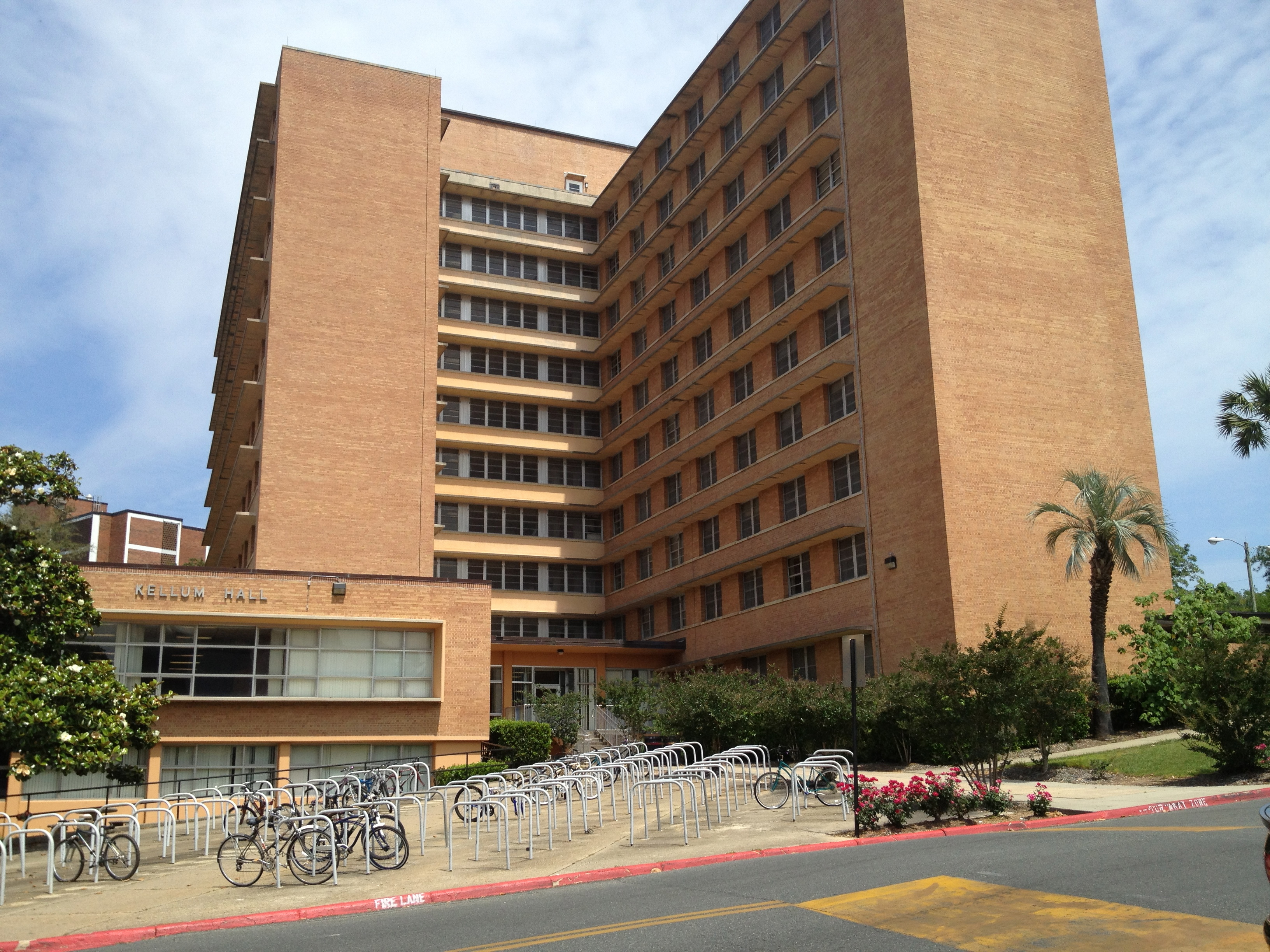 The building Kellum Hall at FSU